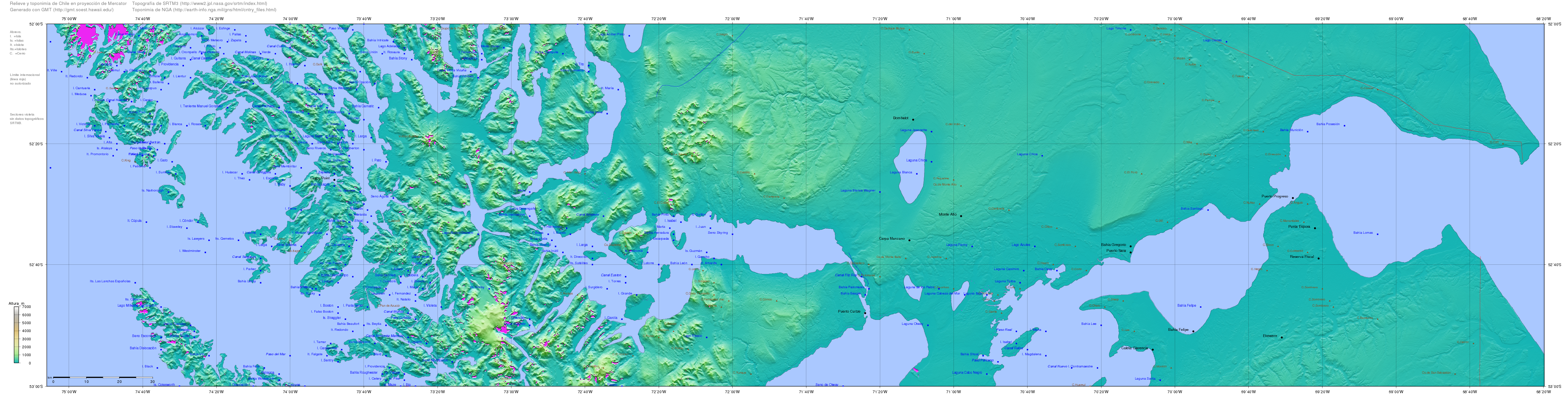 Map of Chile generated with GMT ( topography from SRTM ftp://e0srp01u.ecs.nasa.gov/srtm/version2/SRTM3/ and toponymy from